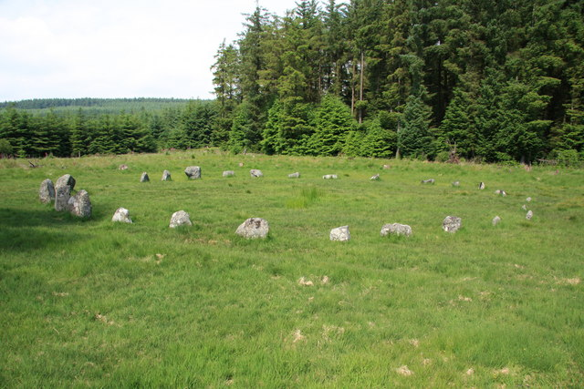 Fernworthy stone circle In a small clearing in the forest a circle of 27 stones, 20 metres across.